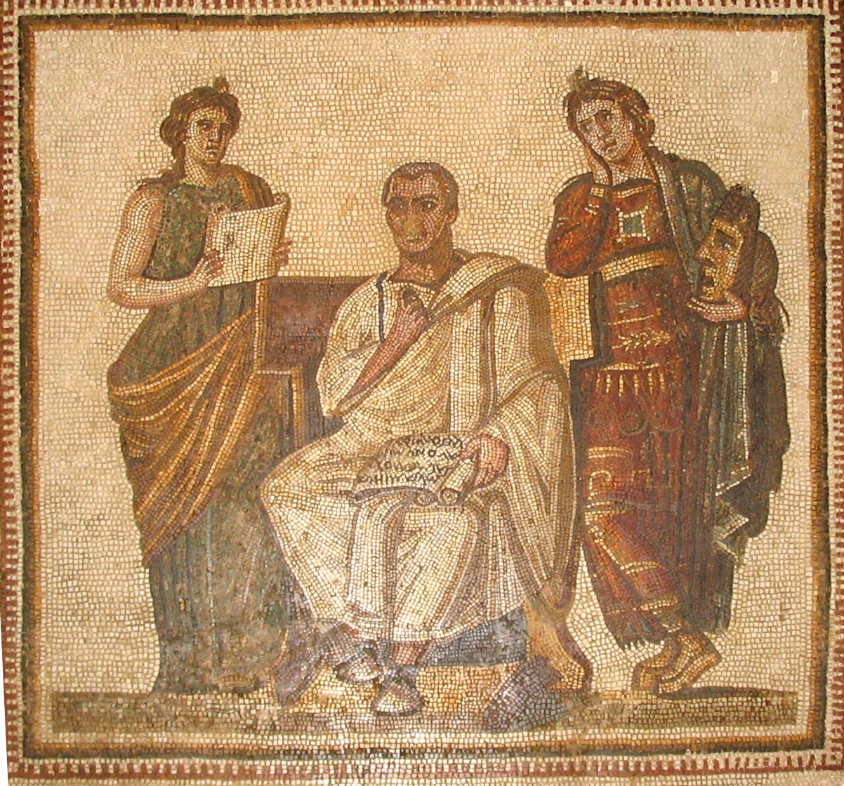 Virgil mosaic in the Bardo National Museum